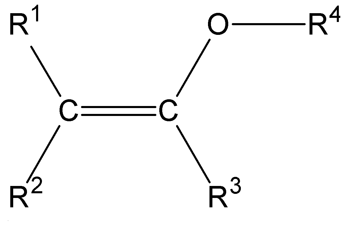 Comments High-resolution black/white .PNG made with ChemSketch and Photoshop — see WikiProject Chemistry - structure drawing for detailed instructions. Please drop me a note if you need the source file. Category:Chemical structures (Original text: Chemical structure of Enol ether)